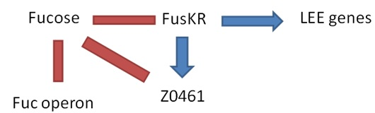 (LOW FUCOSE)